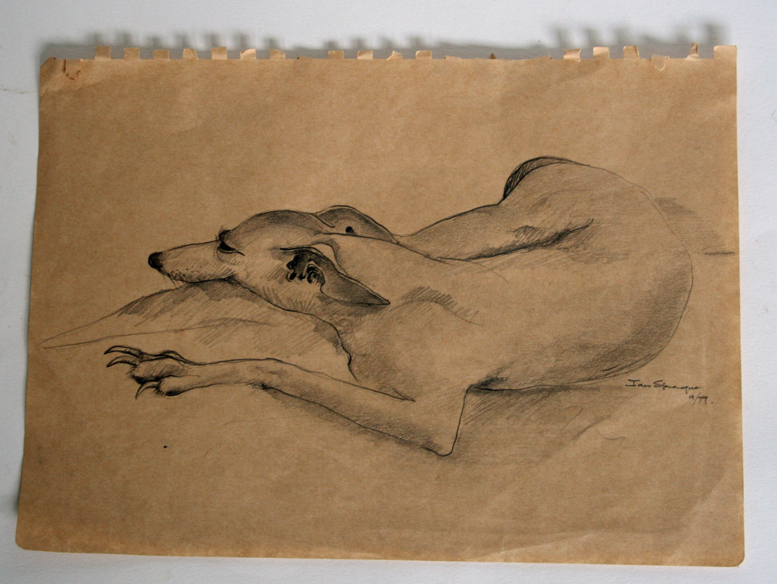 Ian Sprague preparatory drawing 1979 for a pottery bas-relief of his dog Sprint; private collection; photograph by Judith Pearce at Bemboka, NSW